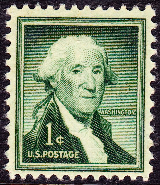 US Postage stamp: Washington, Issue of 1954, 1c, green